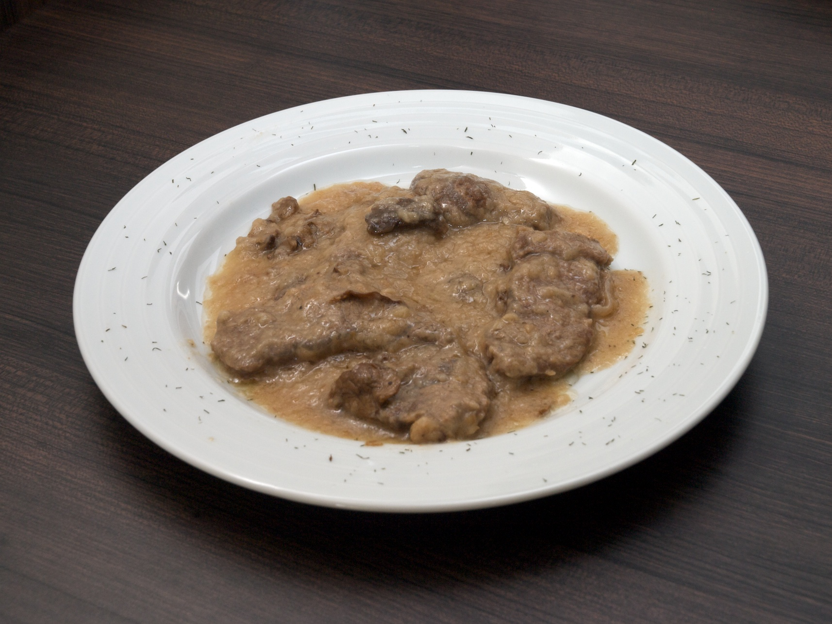 "Fricandó", veal with mushrooms, dish from traditional Catalan cuisine